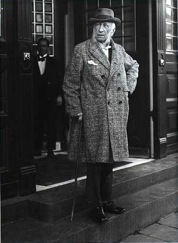 Danish naval officer, commander, politician, MP Hans Emil Bluhme (1833-1926)